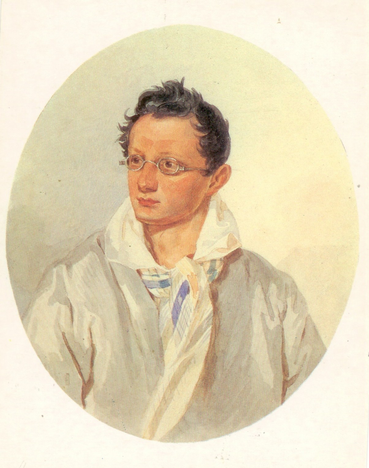 A.N.Rayevskiy